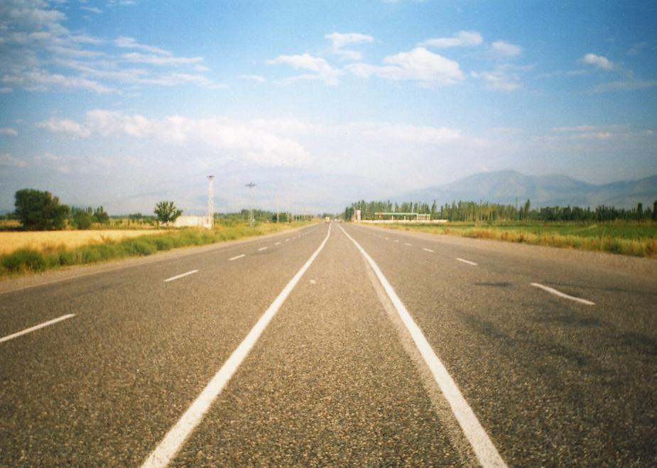 Iğdır-Küllük way